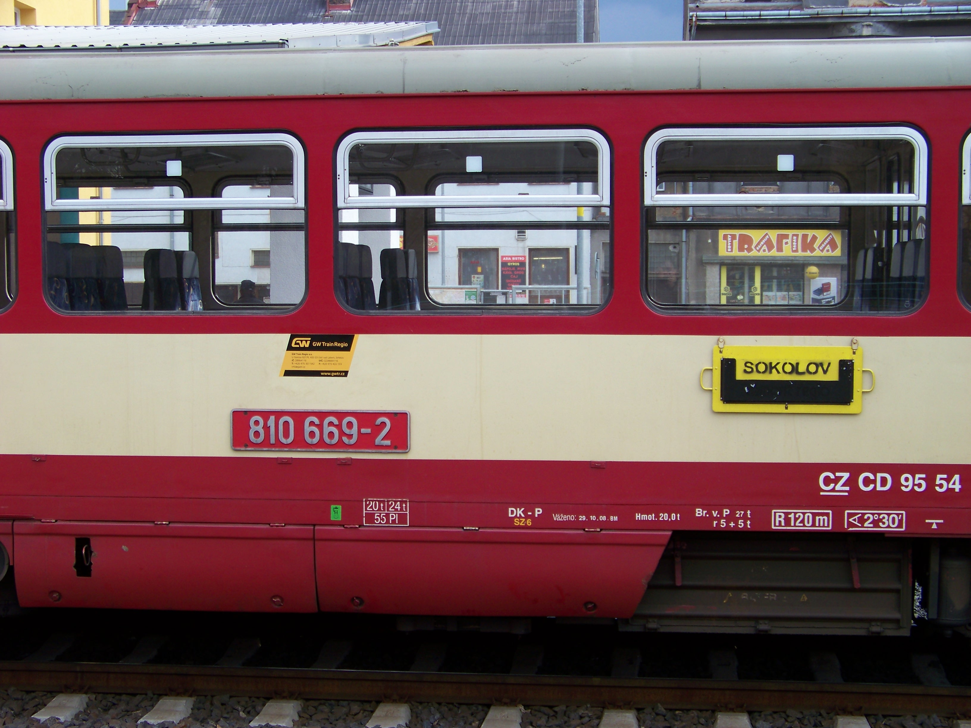 Sokolov, Sokolov District, Karlovy Vary Region, the Czech Republic. A motor unit of ČD in service of GW Train Regio. - Google Maps - Google Earth